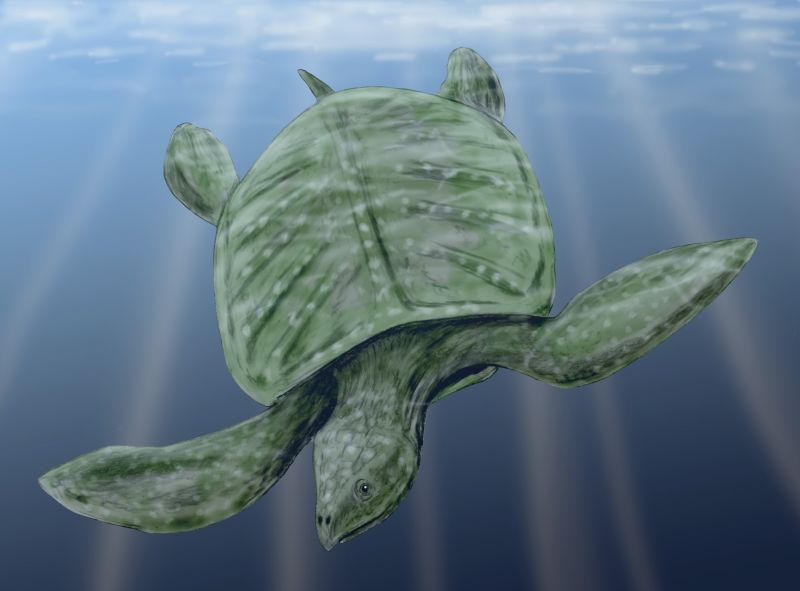 Archelon ischyros, a sea turtle from the Late Cretaceous of North America, pencil drawing